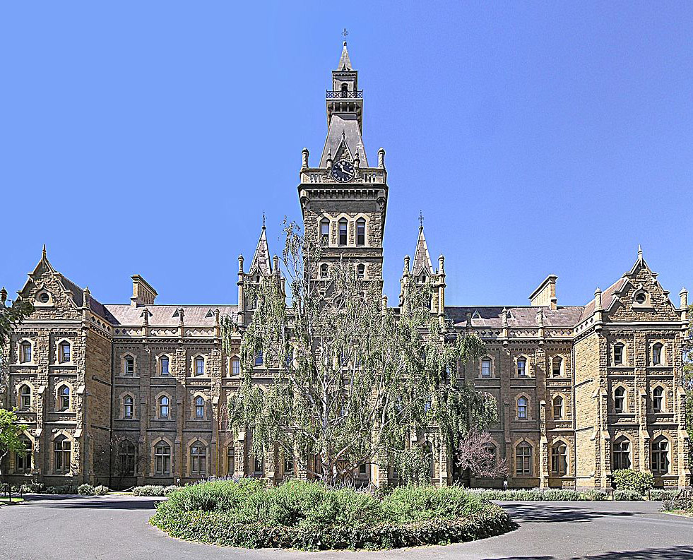 Ormond College (1879), University of Melbourne in Parkville